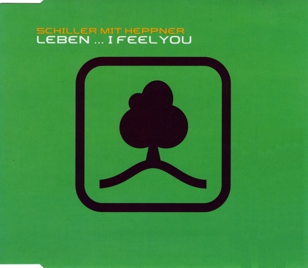 „Leben … I Feel You“ Maxi-Single-Cover by Schiller mit Heppner.